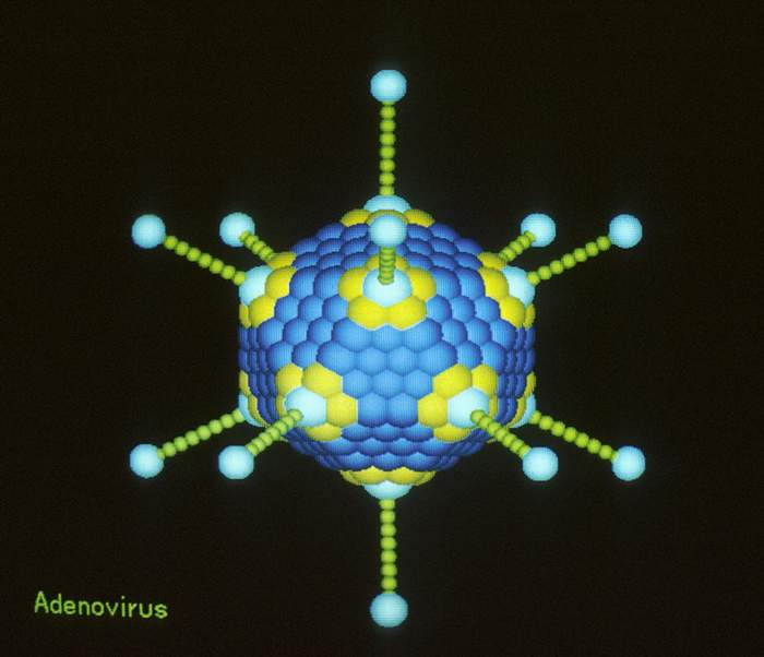 Computer graphic of Adenovirus This image depicts adenovirus. Computer graphics are made by utilizing data fed into a computer. This data may consist of chemical weights and measures and the structure of specific elements. A three-dimensional image can be made so one can visualize an otherwise minute structure. AV Number: AV-8203-3130 Access: Public